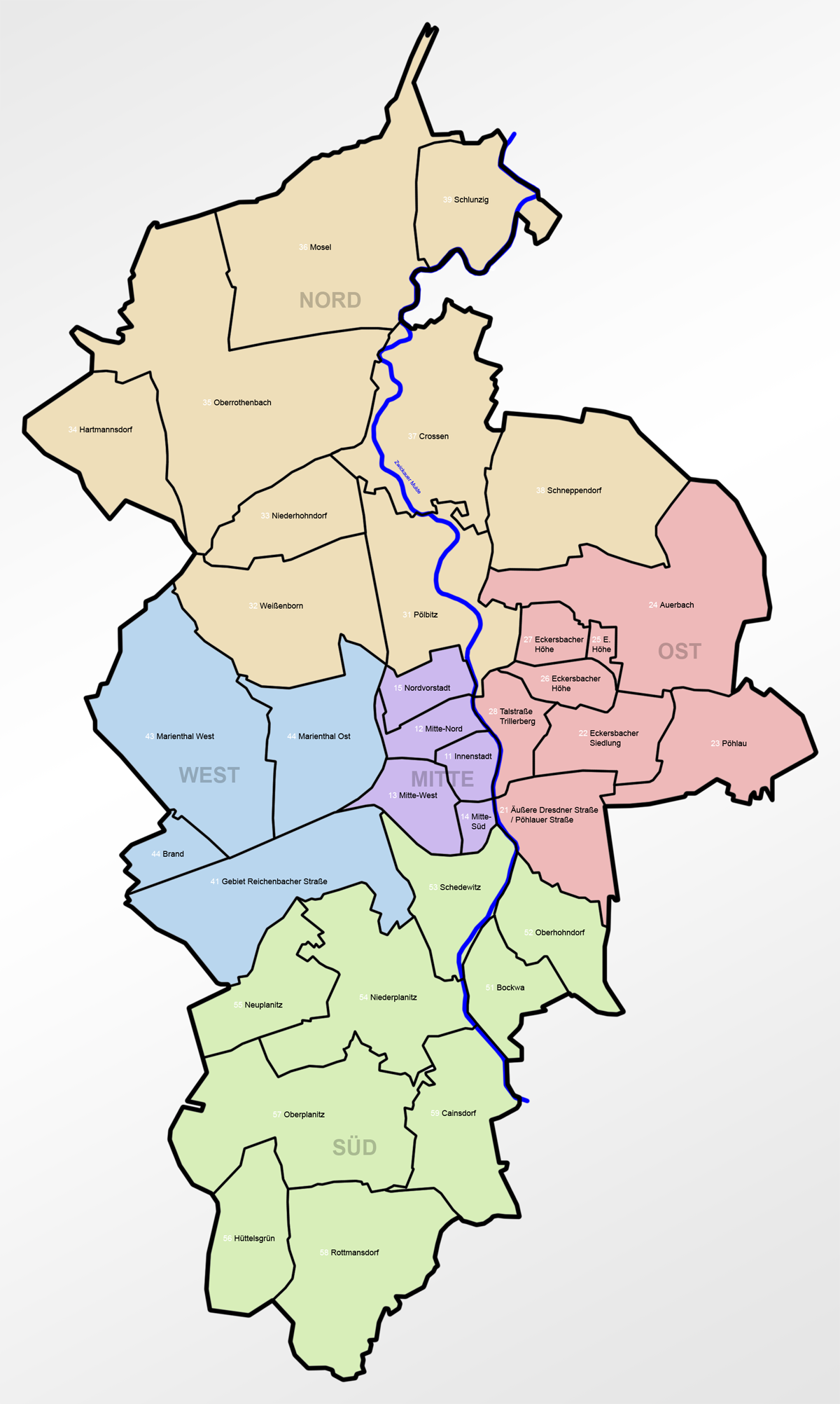 This image shows the parts of the town Zwickau (Saxony, Germany).